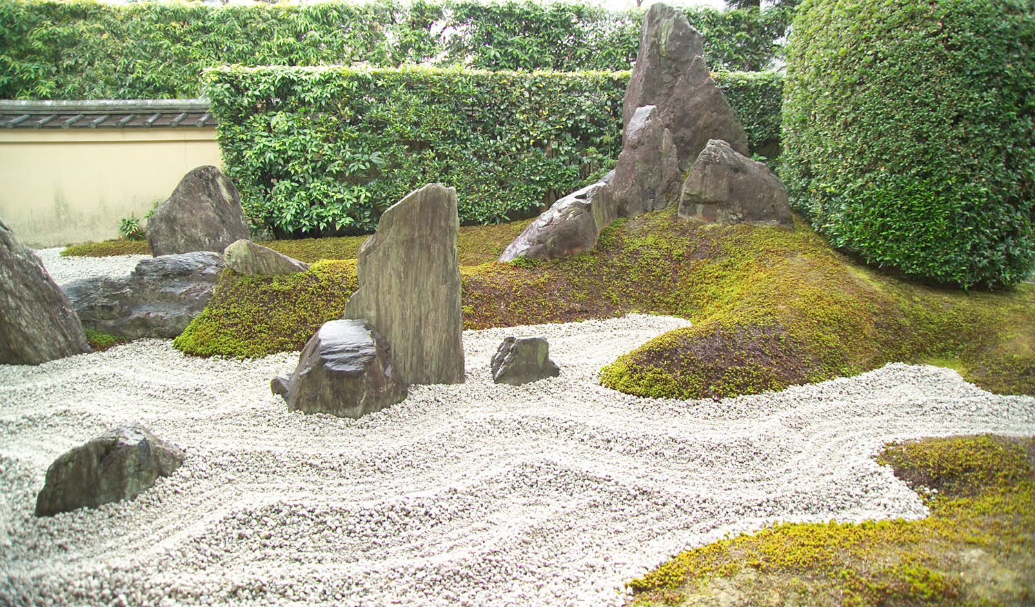 Garden of the Blissful Mountain at Zuiho-in, a subsidiary temple of Daitoku-ji, Kyoto, Japan. Zuiho-in was established by the Christian daimyo Ōtomo Sōrin. I took this photo and release rights in la the file to the public domain; individuals and organizations retain rights to images in the file.